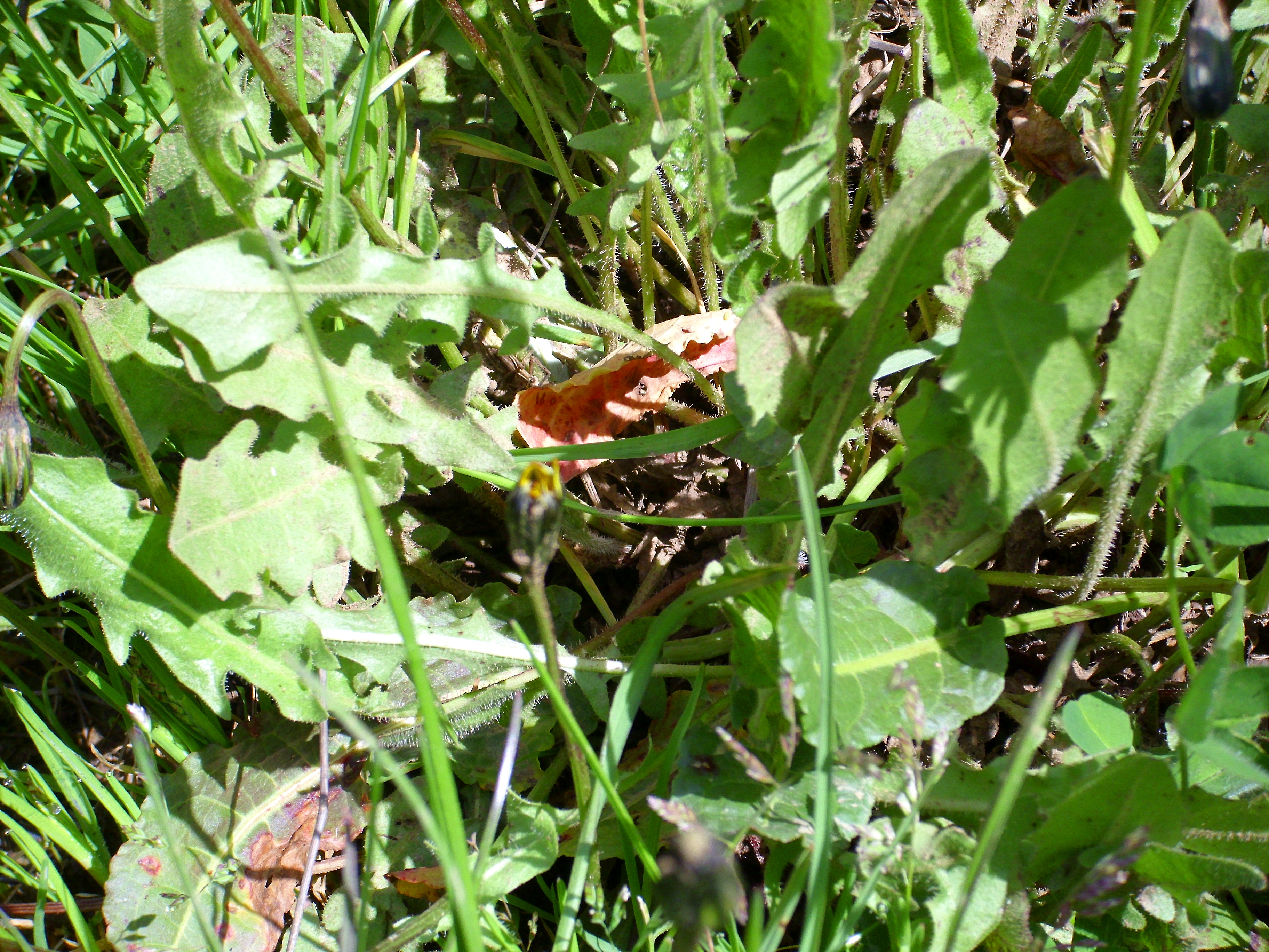 Leontodon tuberosus leaves, in Sierra Madrona, Spain.